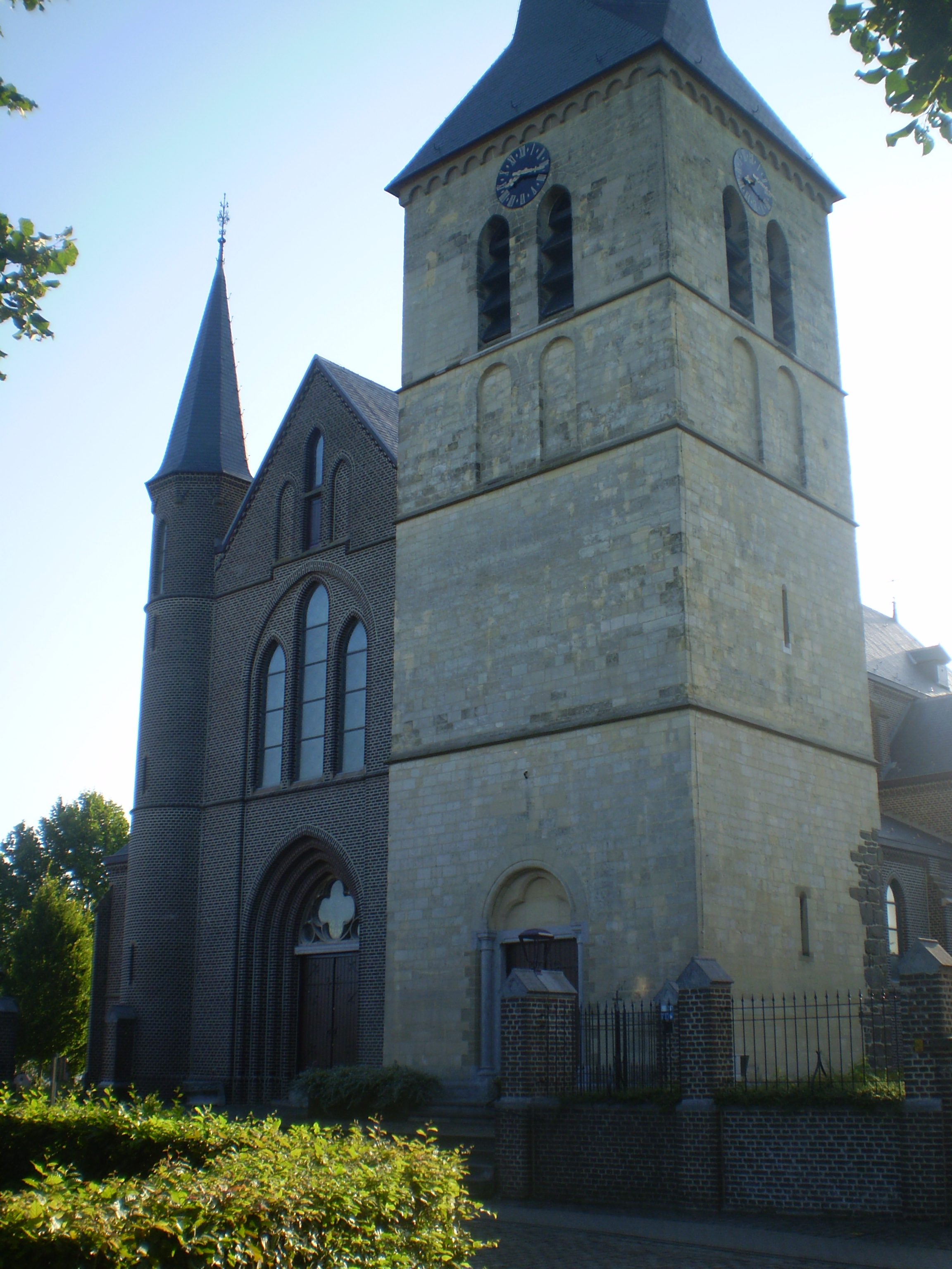 The St. Martin's Church in Kessenich (Belgium)